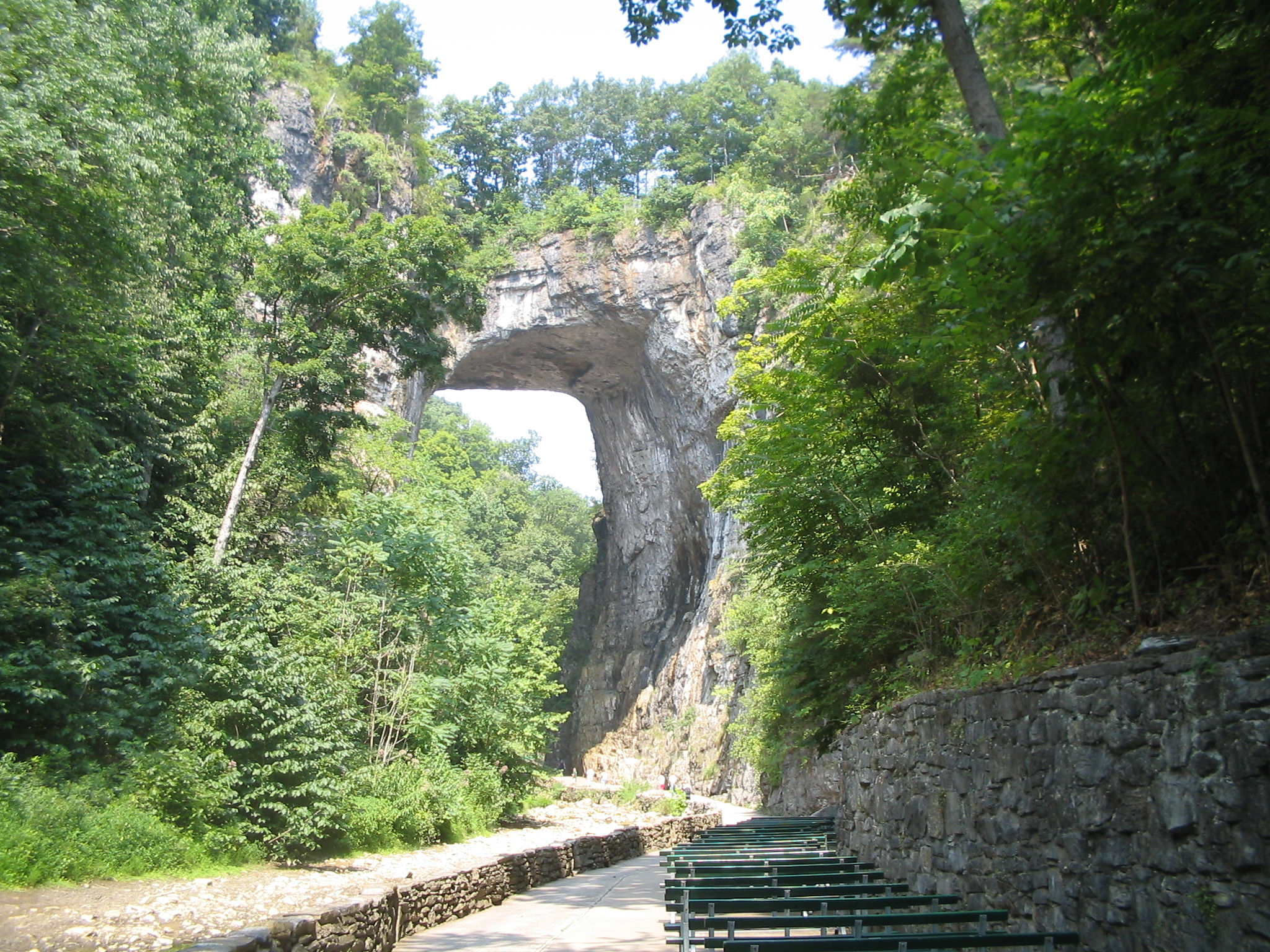 The Natural Bridge in Virginia